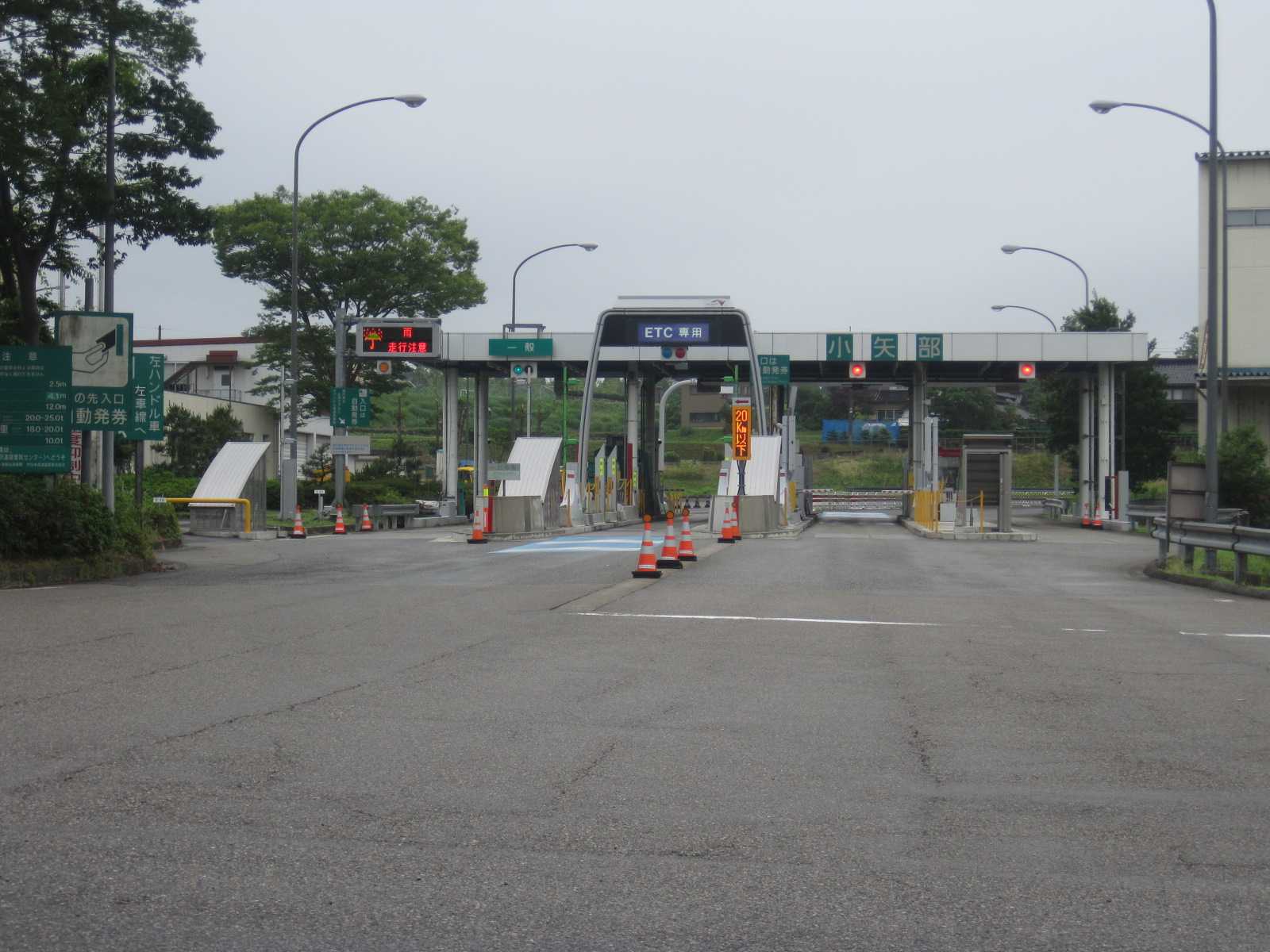 Oyabe inter change (Oyabe city, Toyama prefecuture)